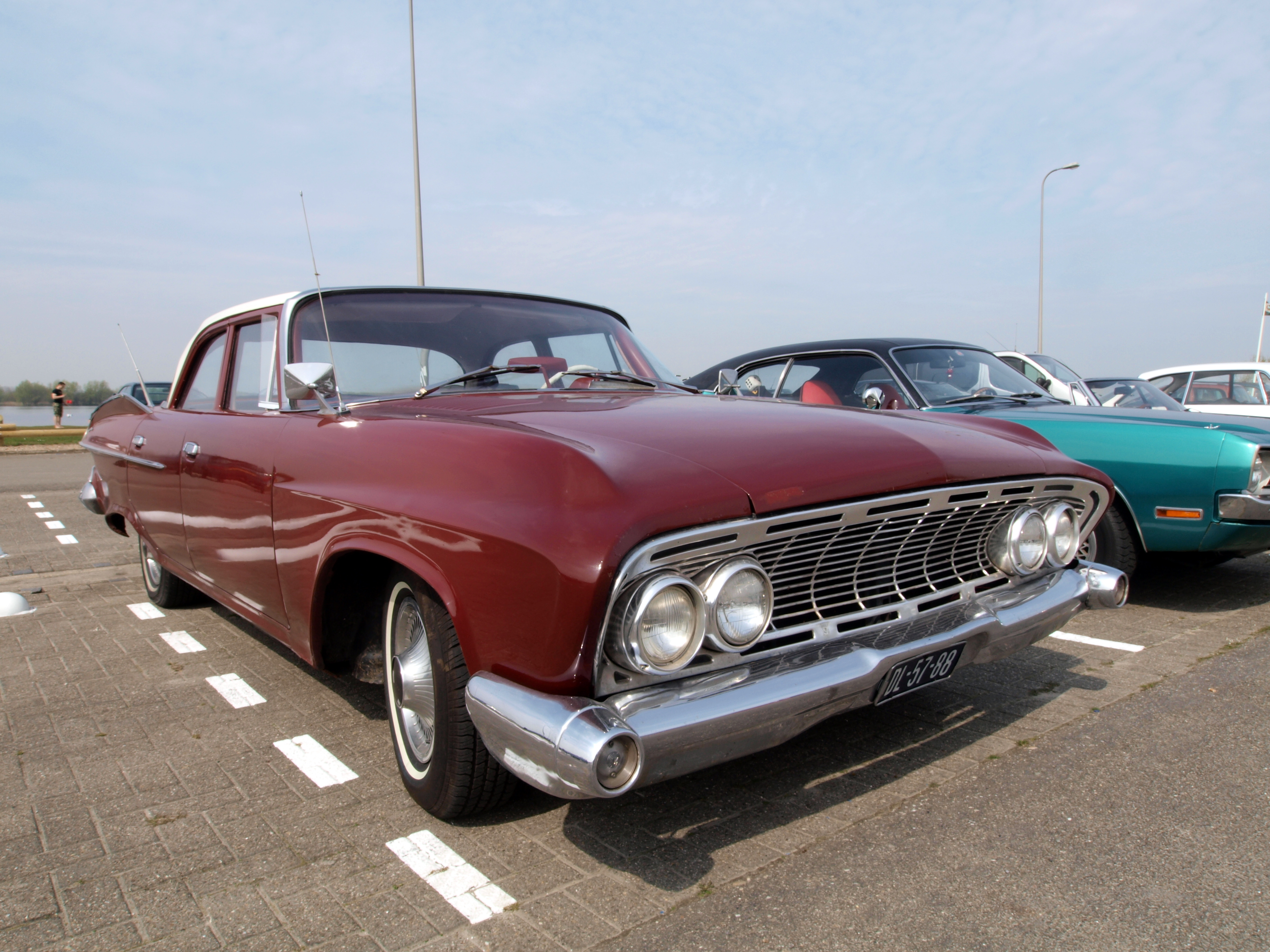 Cars and motorcycles photographed at the Voorschotense Oldtimer Vereniging Show, Valkenburgse meer, The Netherlands.